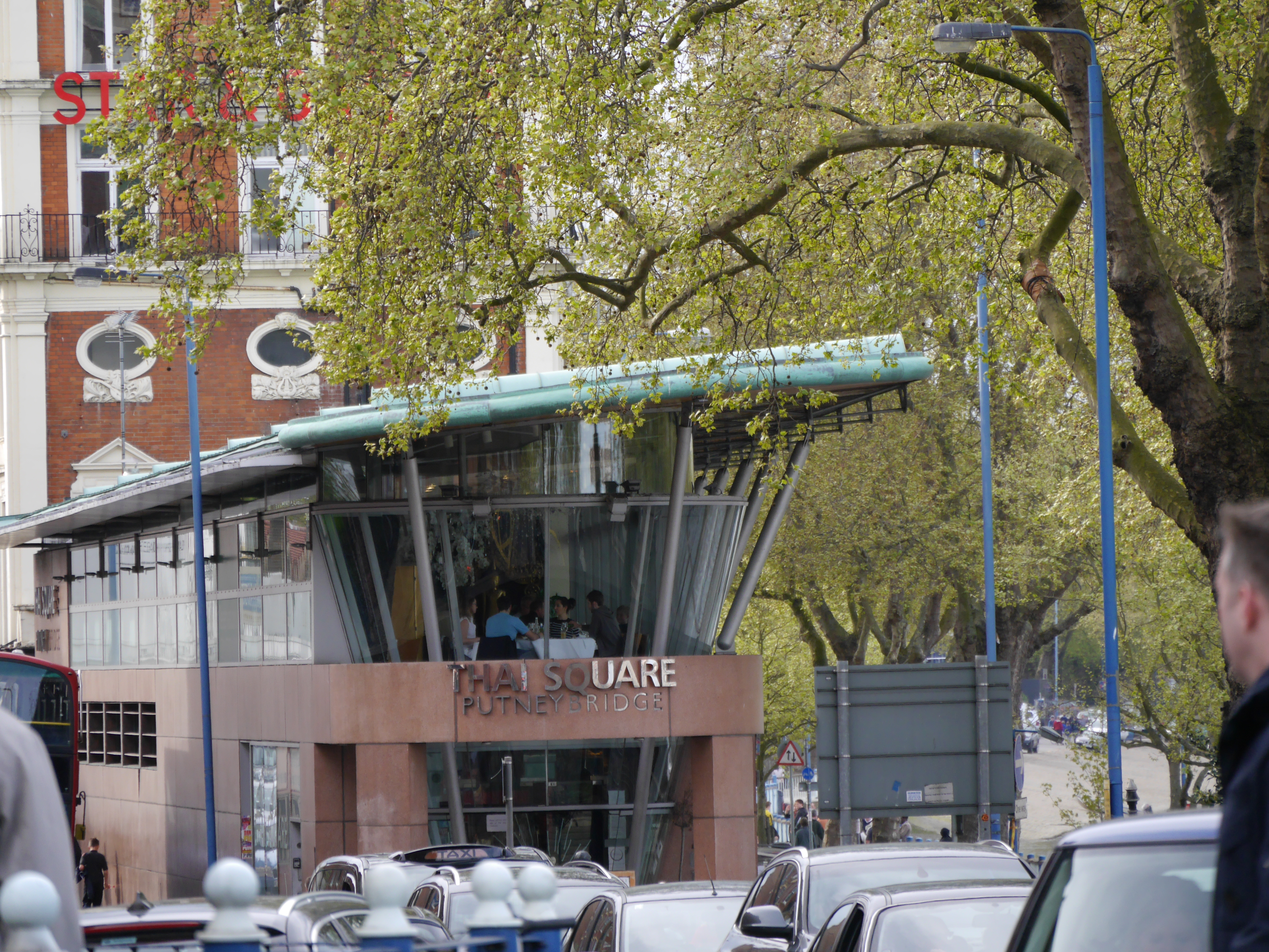 Thai Square restaurant, Putney, London